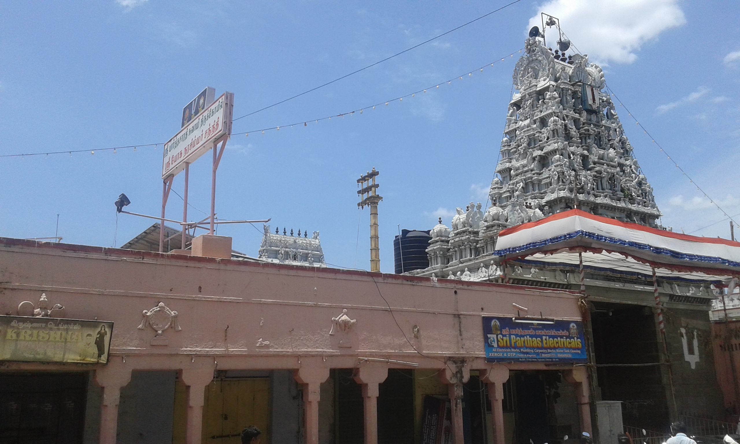 Tiruvallikeni